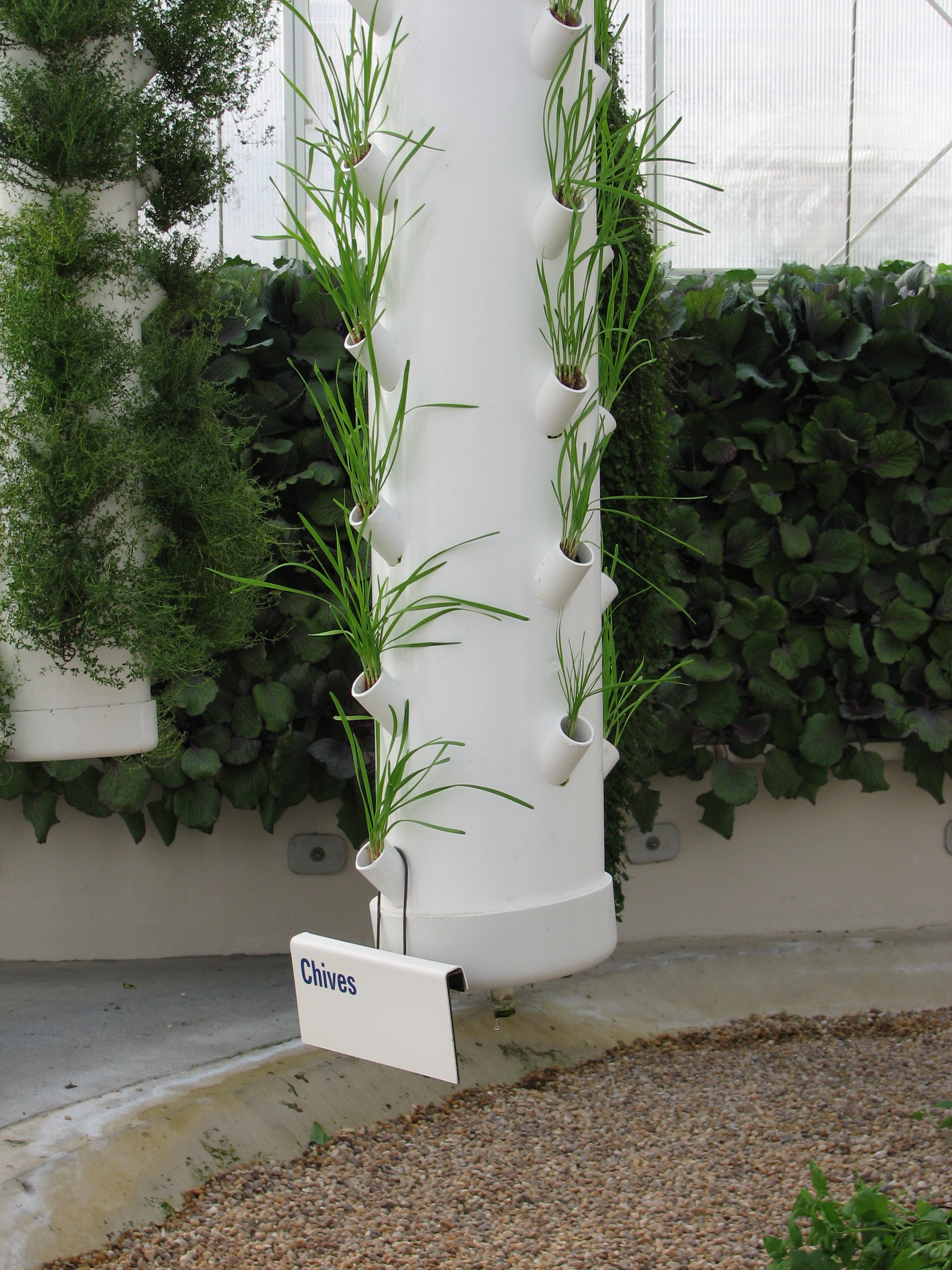 Aeroponically-grown chives in The Land greenhouse at Epcot in Walt Disney World.